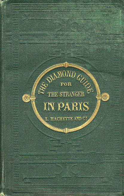 Cover of: Adolphe Joanne (1867) Diamond Guide for the Stranger in Paris, Paris: Hachette